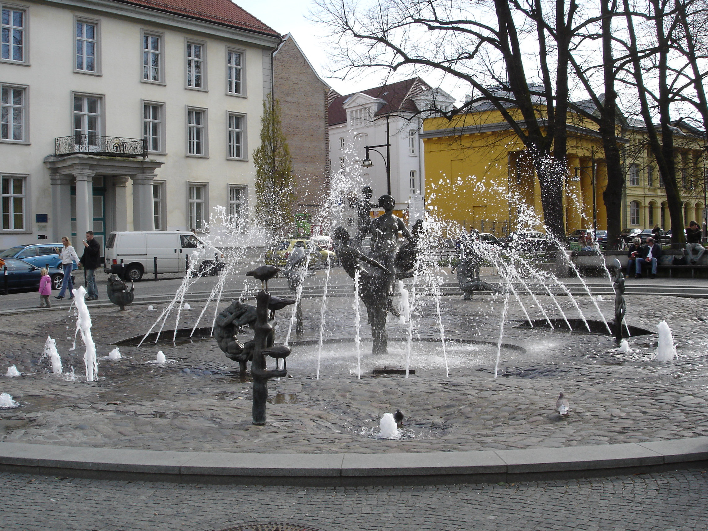 Detail "Brunnen der Lebensfreude" von Jo Jastram in Rostock / Detail of the "Fontain Joie-de-Vivre" of Jo Jastram in Rostock